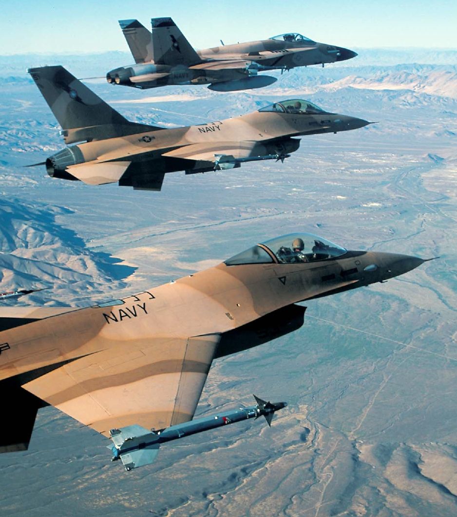 Two U.S. Navy General Dynamics F-16A Fighting Falcons and a McDonnell Douglas F/A-18A Hornet from the Naval Strike and Air Warfare Center fly over Nevada (USA).